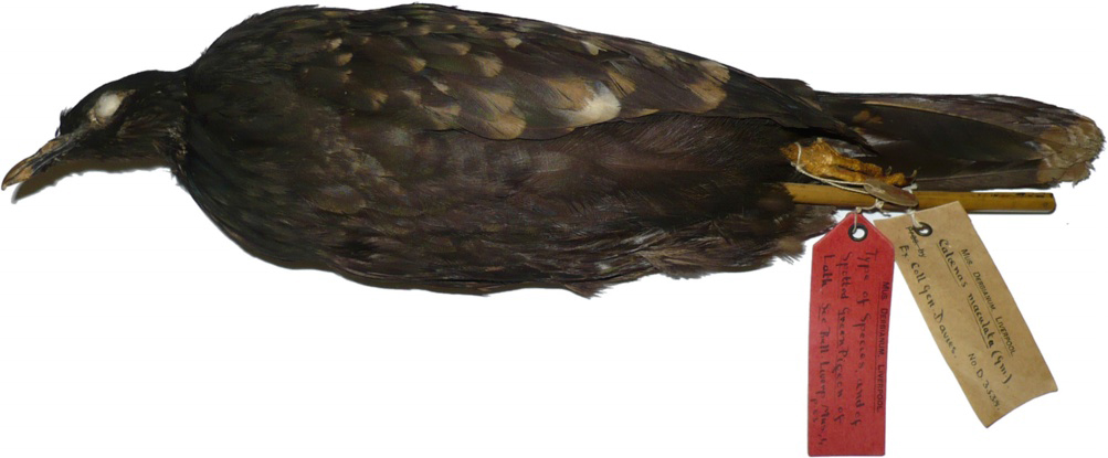 Spotted Green Pigeon Caloenas maculata, sole surviving specimen at World Museum, Liverpool.